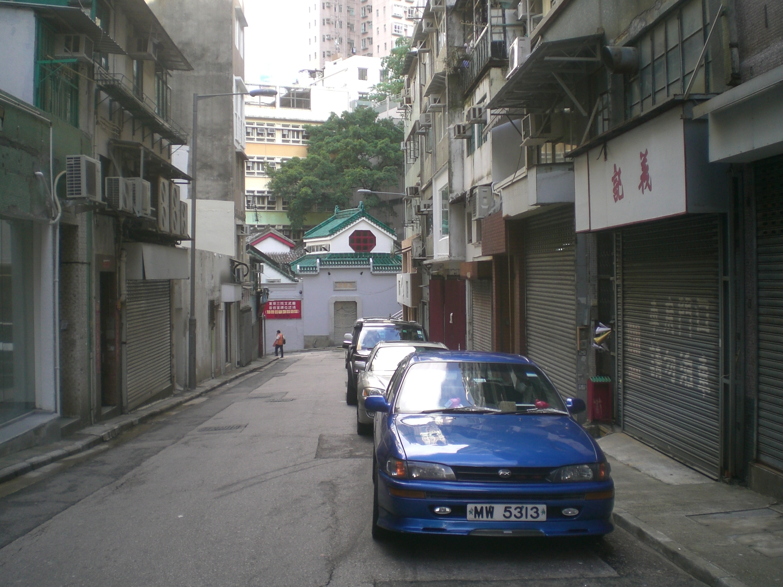 上環四方街